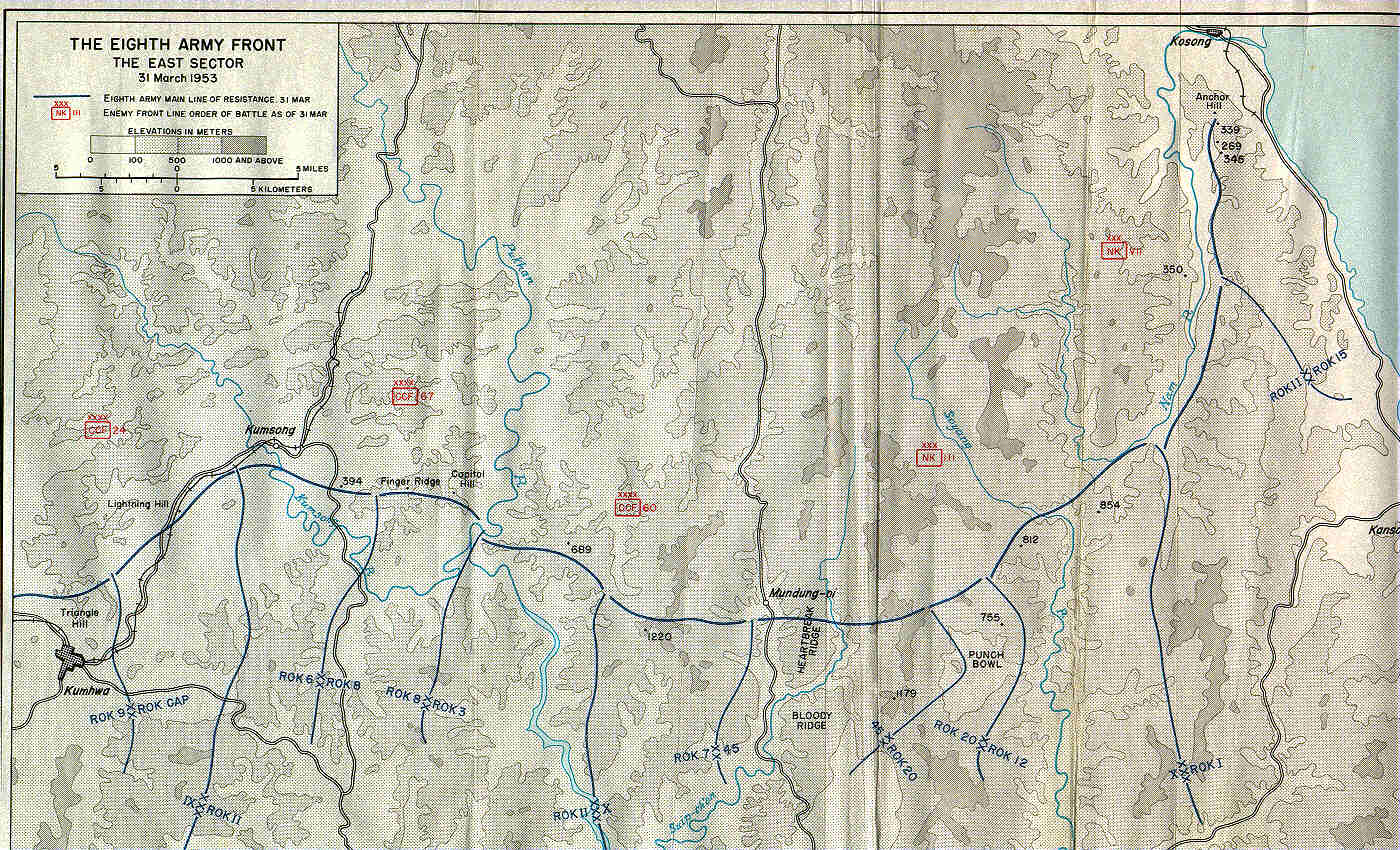 Jamestown Line east sector, US Eighth Army main line of resistance in Korea 31 March 1953